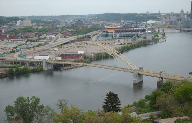 West End Bridge From West End Overlook